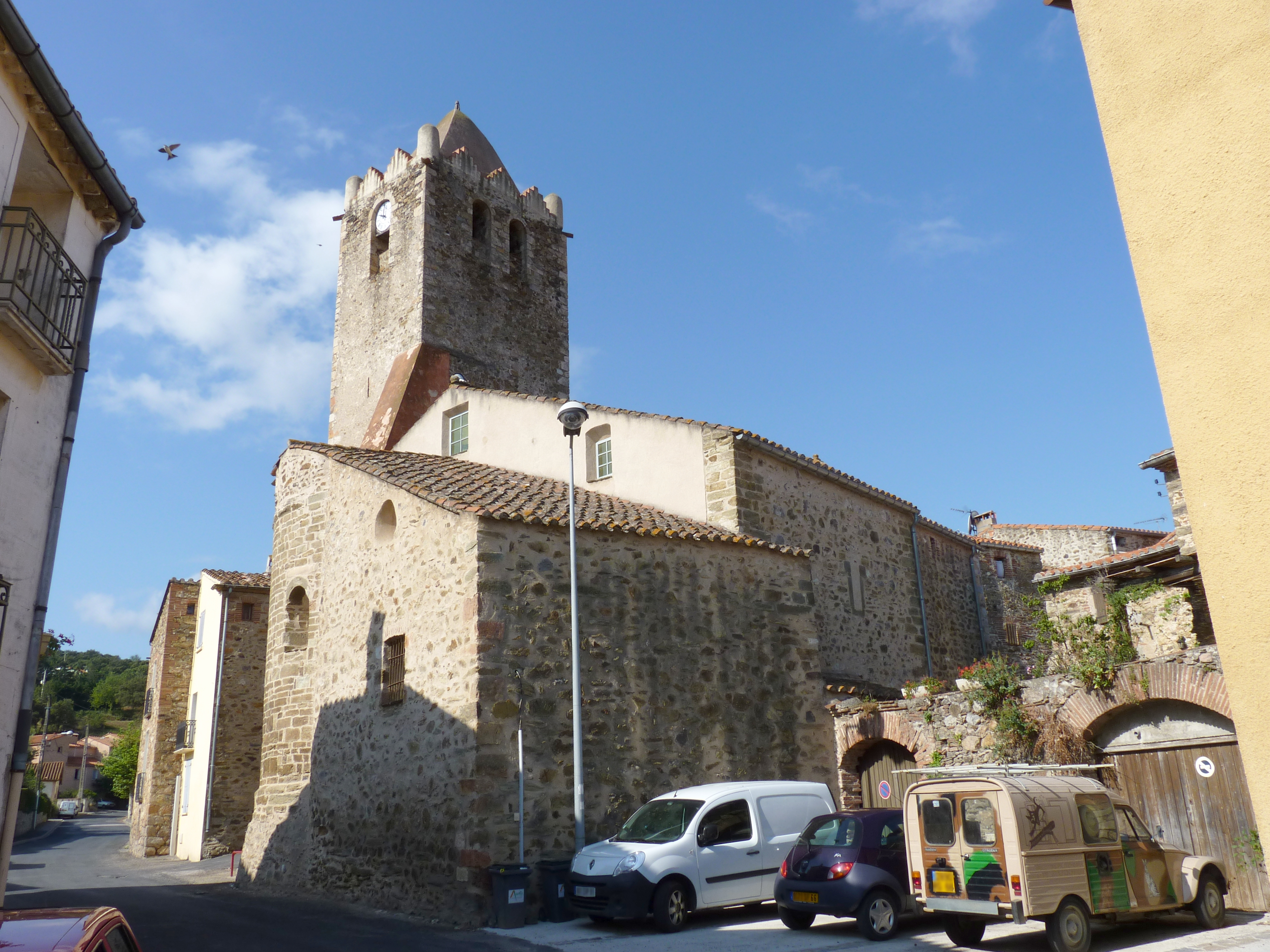 Église Saint-Jean, Oms (Pyrénées-Orientales, Languedoc-Roussillon, France)